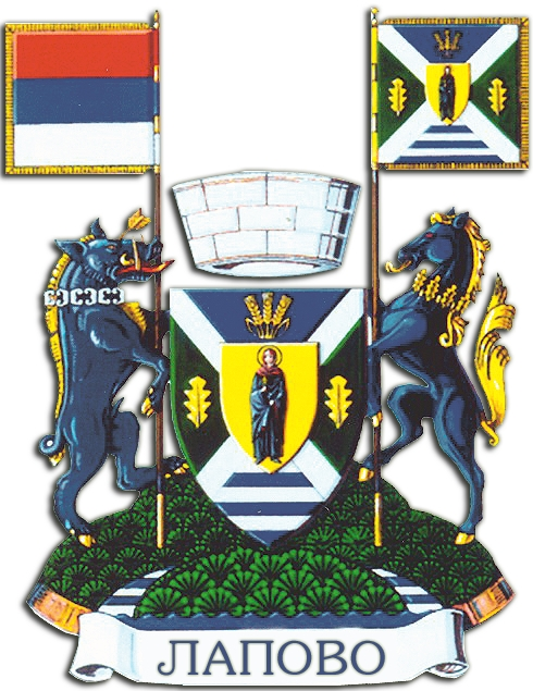 Coat of arms of Lapovo, Serbia/Blason de la ville de Lapovo, Serbie